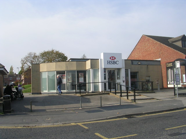 HSBC - Low Street